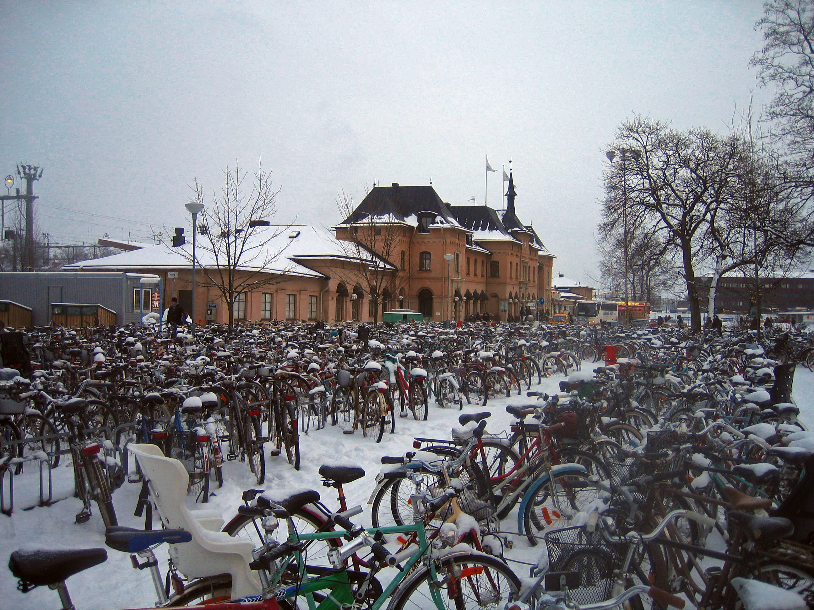 The bike parking outside the Central Train Station.